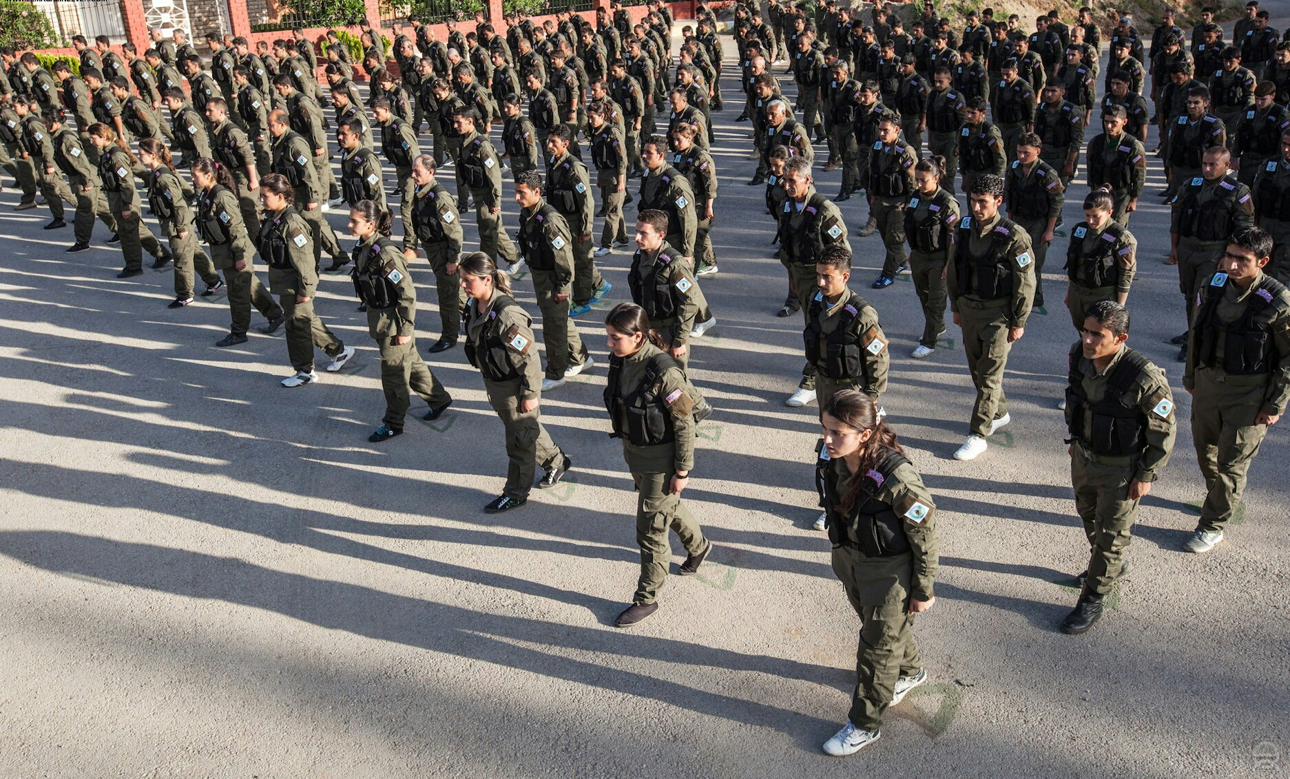 Asayis (Security Forces)